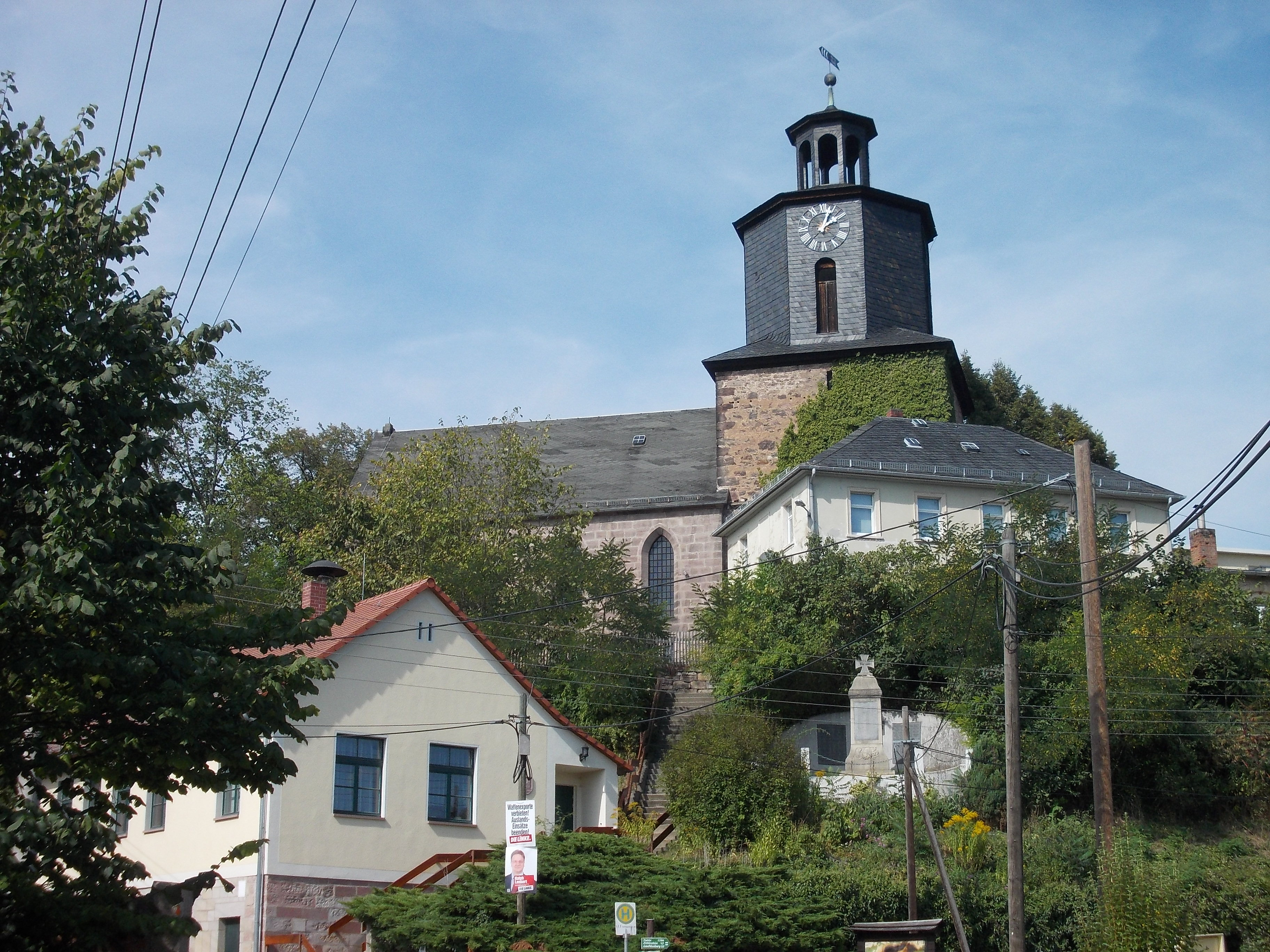 St. George's Church in Grosseutersdorf (district: Saale-Holzland-Kreis, Thuringia)